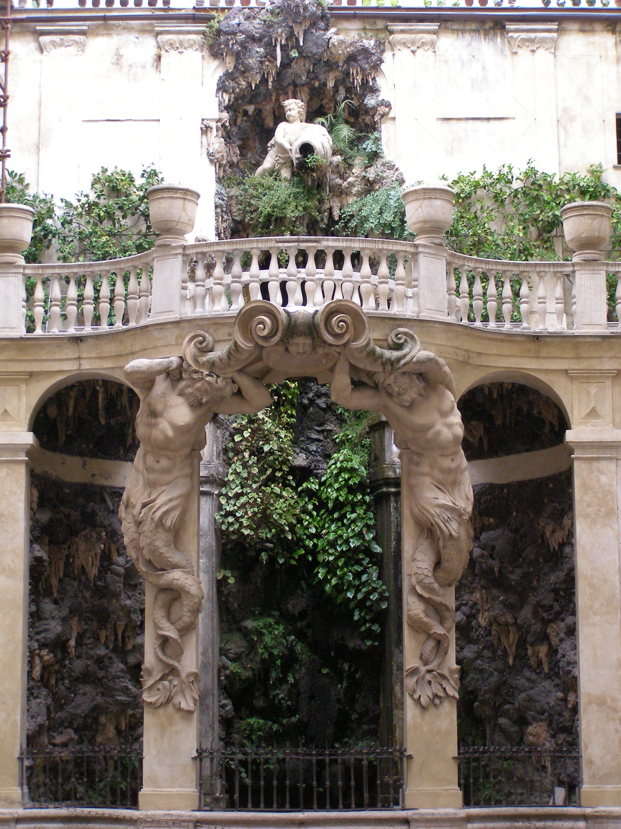 The Palazzo Podestà garden courtyard, with Rococo Nymphaea — in Genoa, northern Italy.